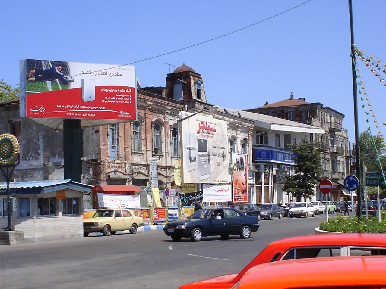 XIX century, post-russian buildings in Bandar-e Anzali